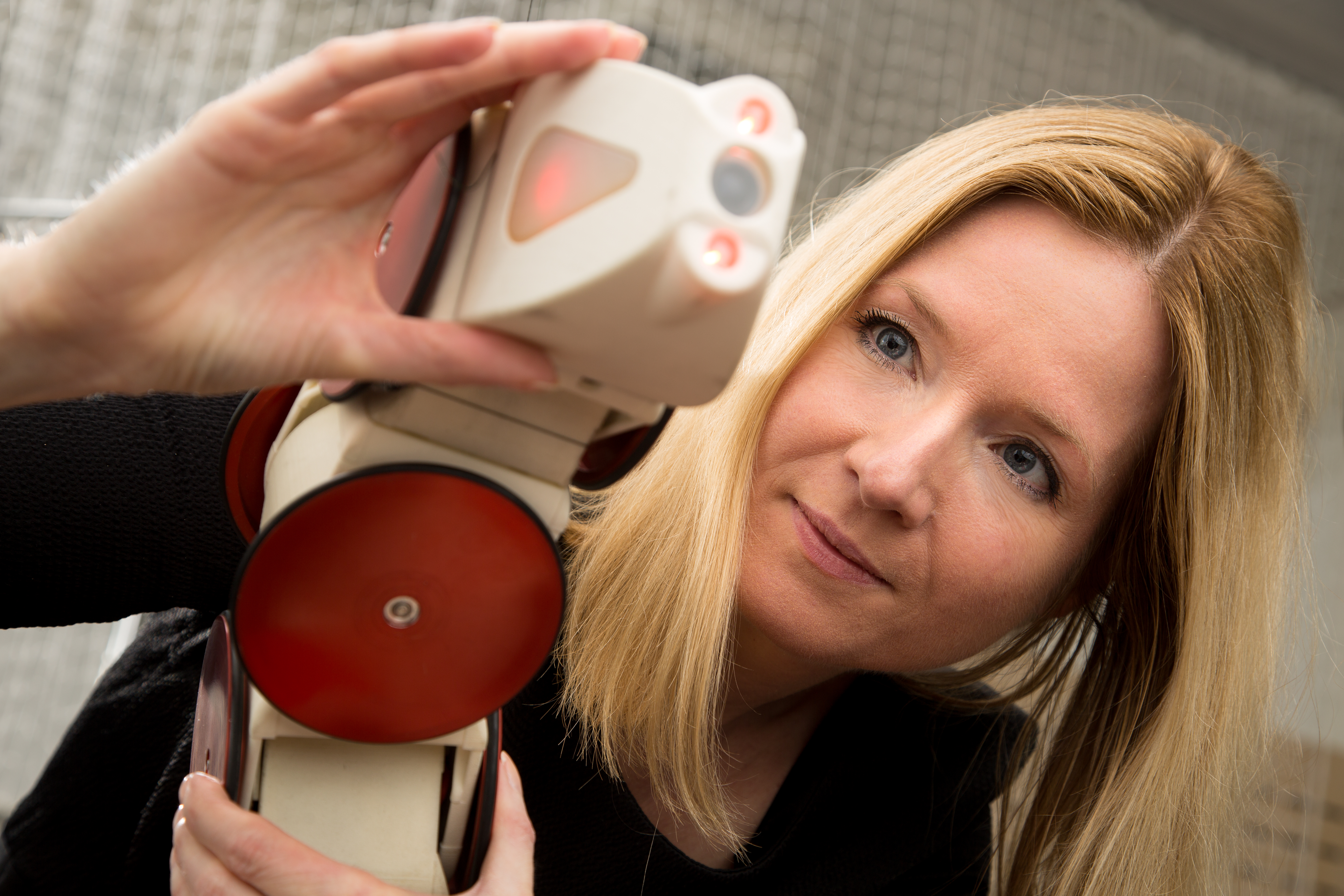 Professor Kristin Pettersen together with one of the snake robots built at the Norwegian University of Technology and Science (NTNU) in Trondheim.